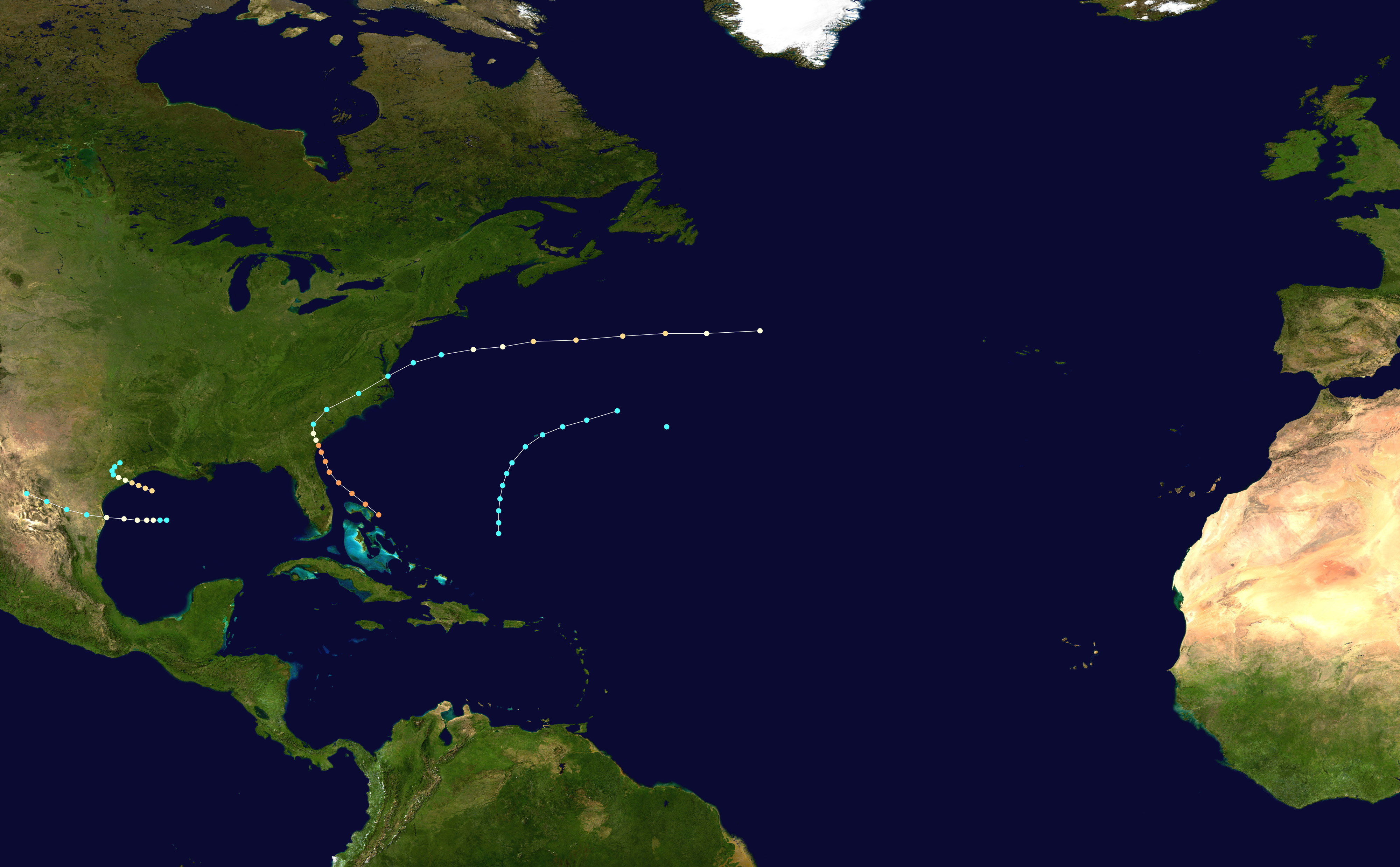 This map shows the tracks of all tropical cyclones in the 1854 Atlantic hurricane season. The points show the location of each storm at 6-hour intervals. The colour represents the storm's maximum sustained wind speeds as classified in the Saffir-Simpson Hurricane Scale (see below), and the shape of the data points represent the type of the storm. Saffir–Simpson hurricane wind scale Tropical depression≤38 mph≤62 km/h Category 3111–129 mph178–208 km/h Tropical storm39–73 mph63–118 km/h Category 4130–156 mph209–251 km/h Category 174–95 mph119–153 km/h Category 5≥157 mph≥252 km/h Category 296–110 mph154–177 km/h Unknown Storm typeTropical cycloneSubtropical cycloneExtratropical cyclone / Remnant low / Tropical disturbance